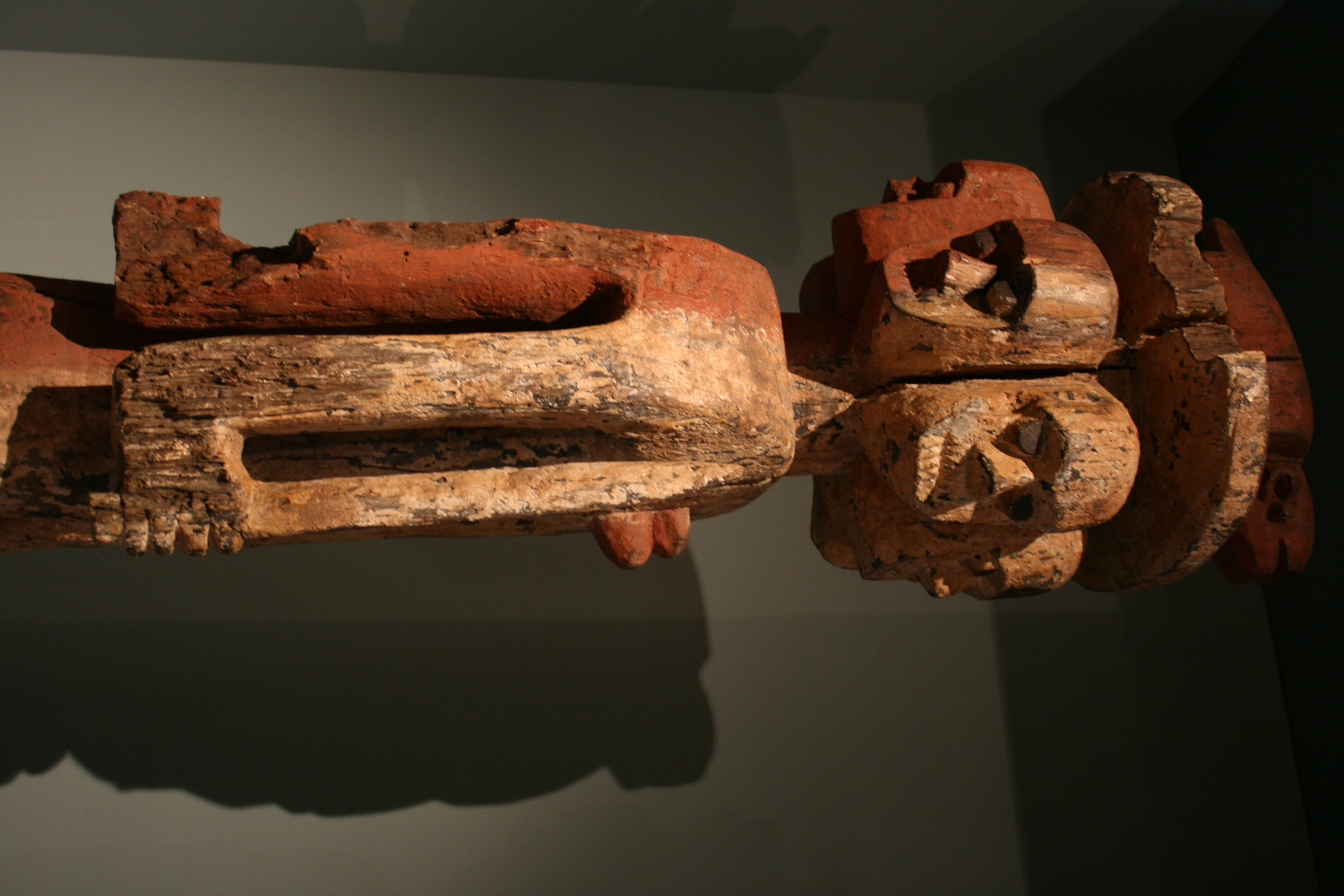 "The many faces of your enemies" (Ijaw statue); exhibited in the New Orleans Museum of Art